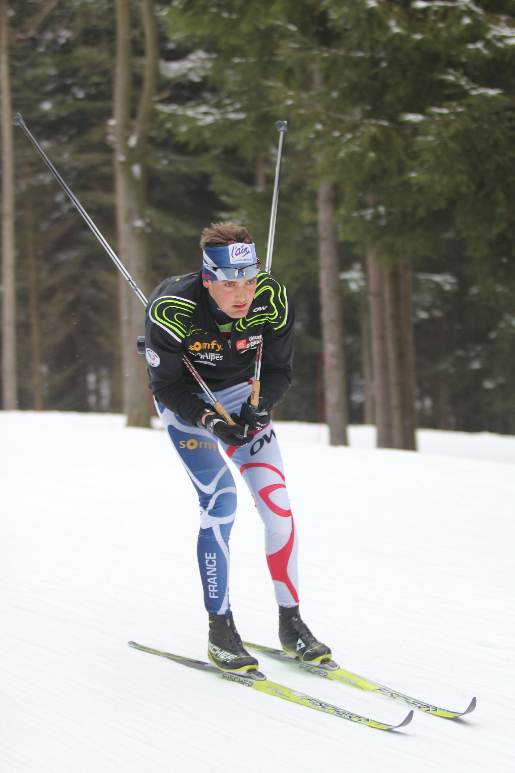 Simon Desthieux at Biathlon World Championchip 2013 in Nove Mesto na Morave